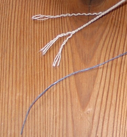 Yarn of flax and cotton of different thickness